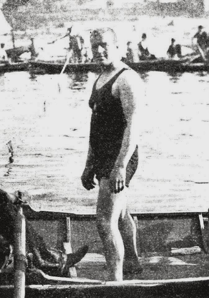 John Jarvis, winner in the 1000m and 4000m freestyle swimming at the 1900 Olympic Games photography, reproduction, no restrictions on use